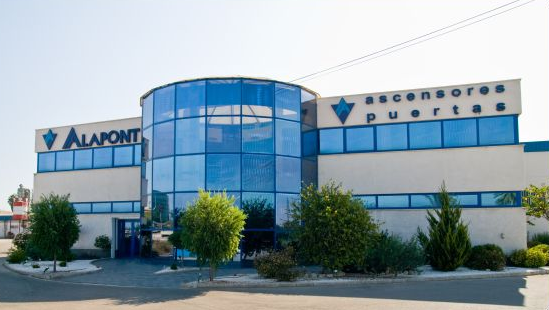 Alapont headquaters, Alcira